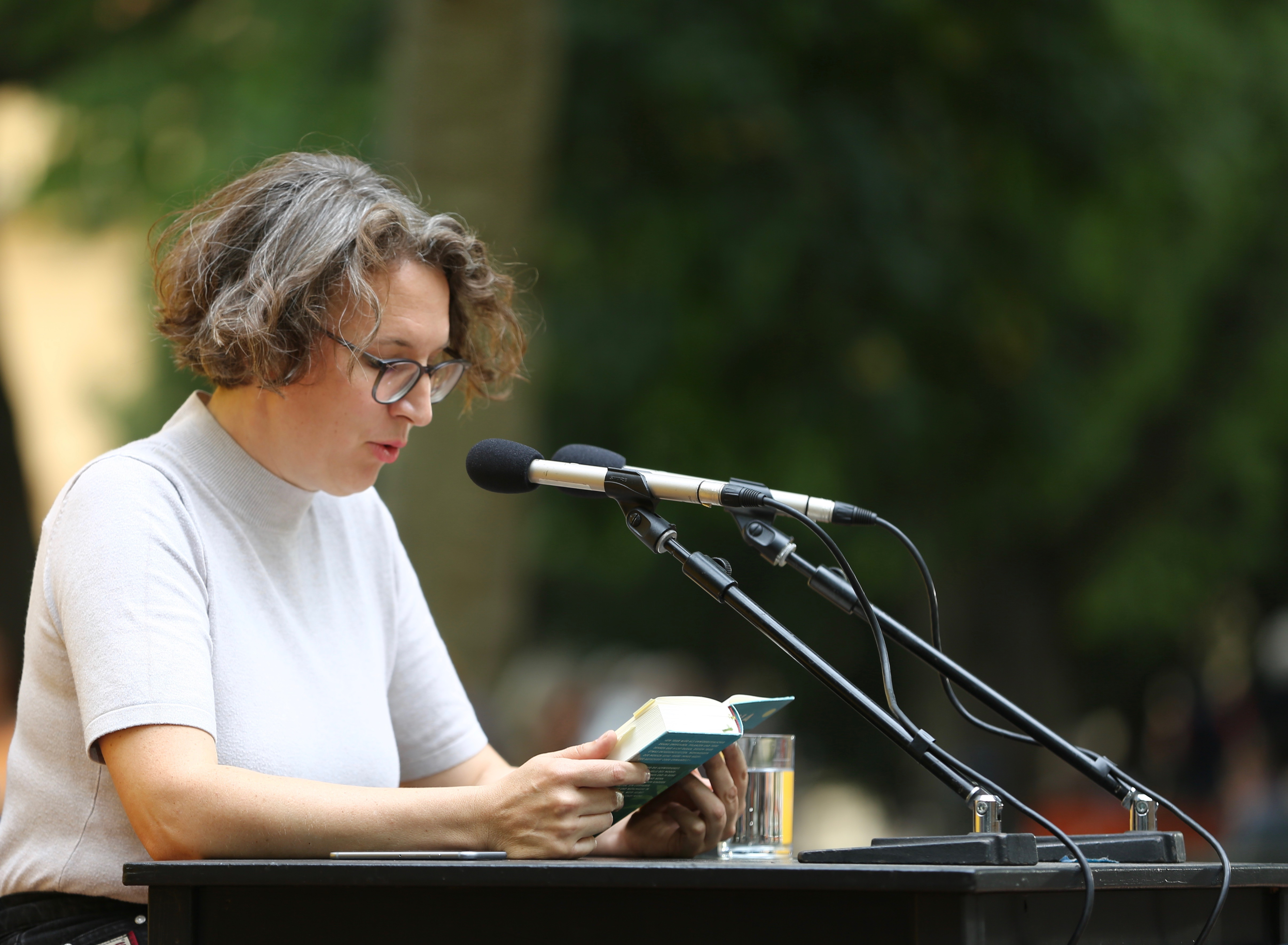 German author Lola Randl presents her novel "Der große Garten" at Literature festival "Erlanger Poetenfest" 2019